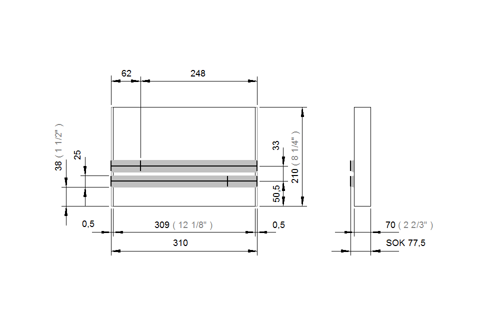 Drawing of en straight T-Trak module for N gauge.